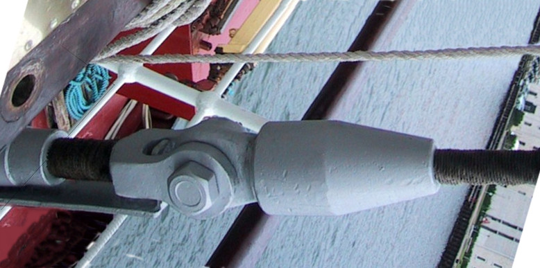 Wire rope with poured socket end connection and closed spelter socket on a sailboat. Retouched Background